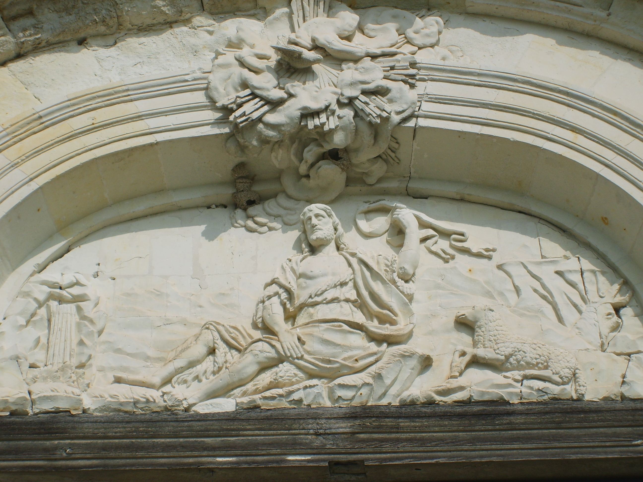 Portal of Chartreuse du Liget (Indre-et-Loire) in France. Publish by= User:Stephane8888 Self made